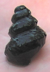 Photo of Tulotoma magnifica on a human hand.